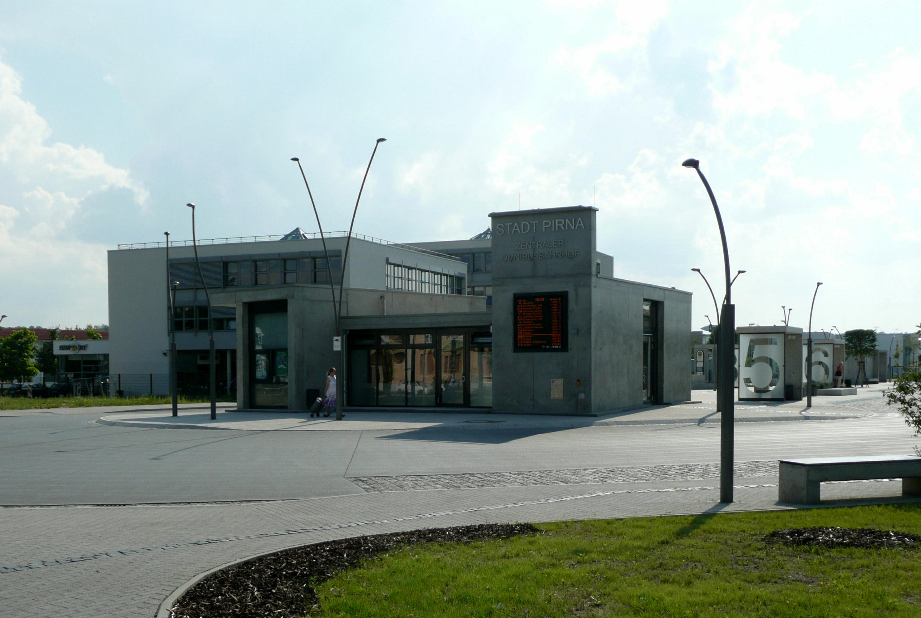 The main bus station in Pirna.